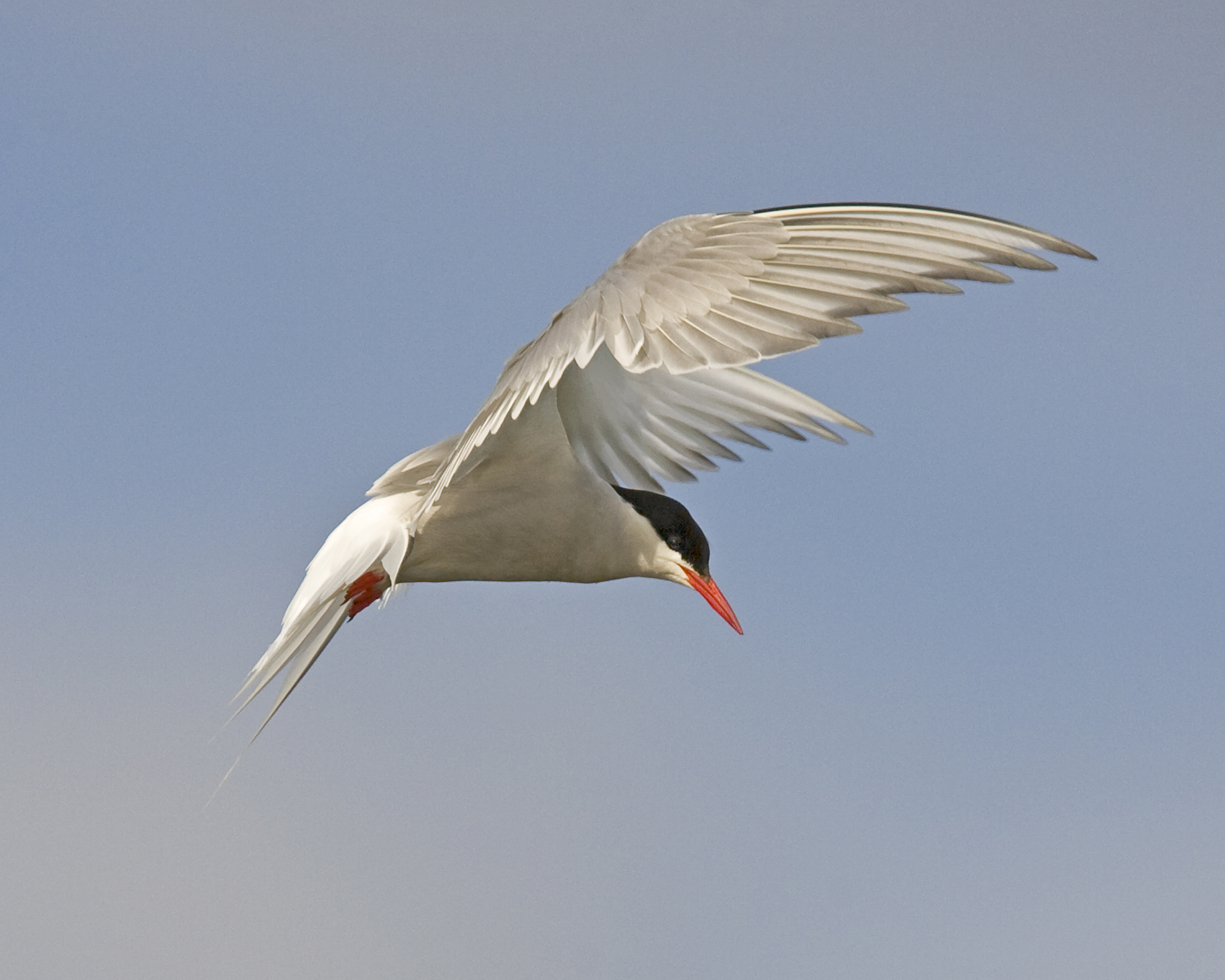 (NPS Photo/Ken Conger) Check out the official Denali Facebook, Twitter and YouTube pages: Like us on Facebook: Follow us on Twitter: Denali YouTube Channel